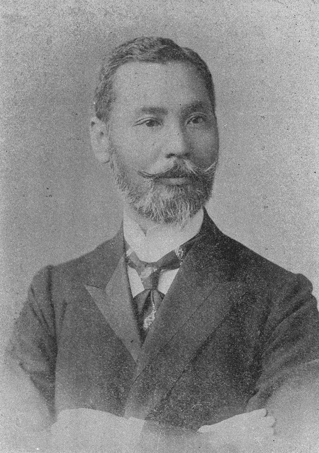 Portrait of Omura Jintaro (大村仁太郎, 1863 – 1907)